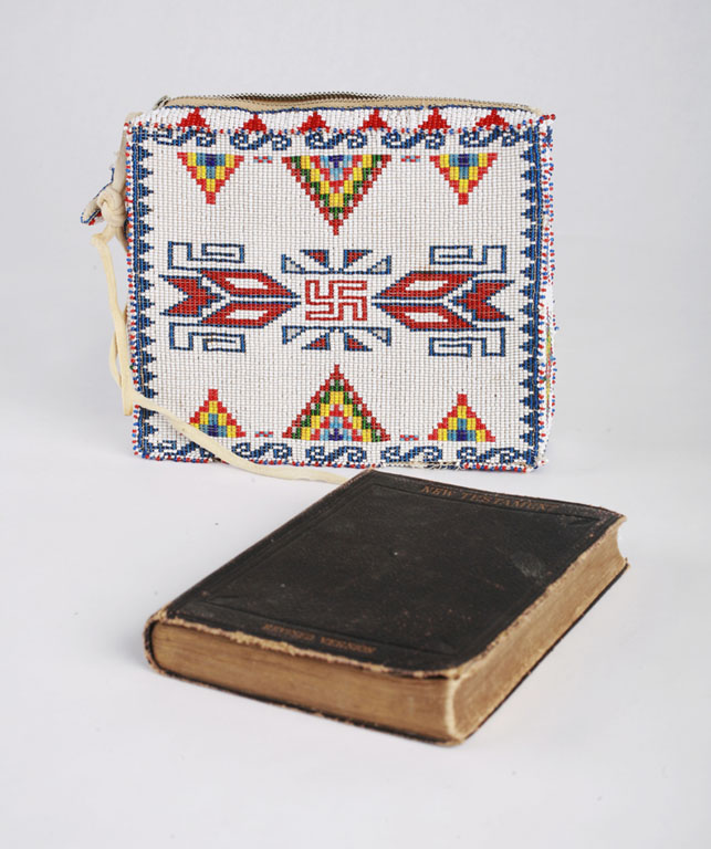 A Beaded Bible case with Bible in the permanent collection of The Children’s Museum of Indianapolis.